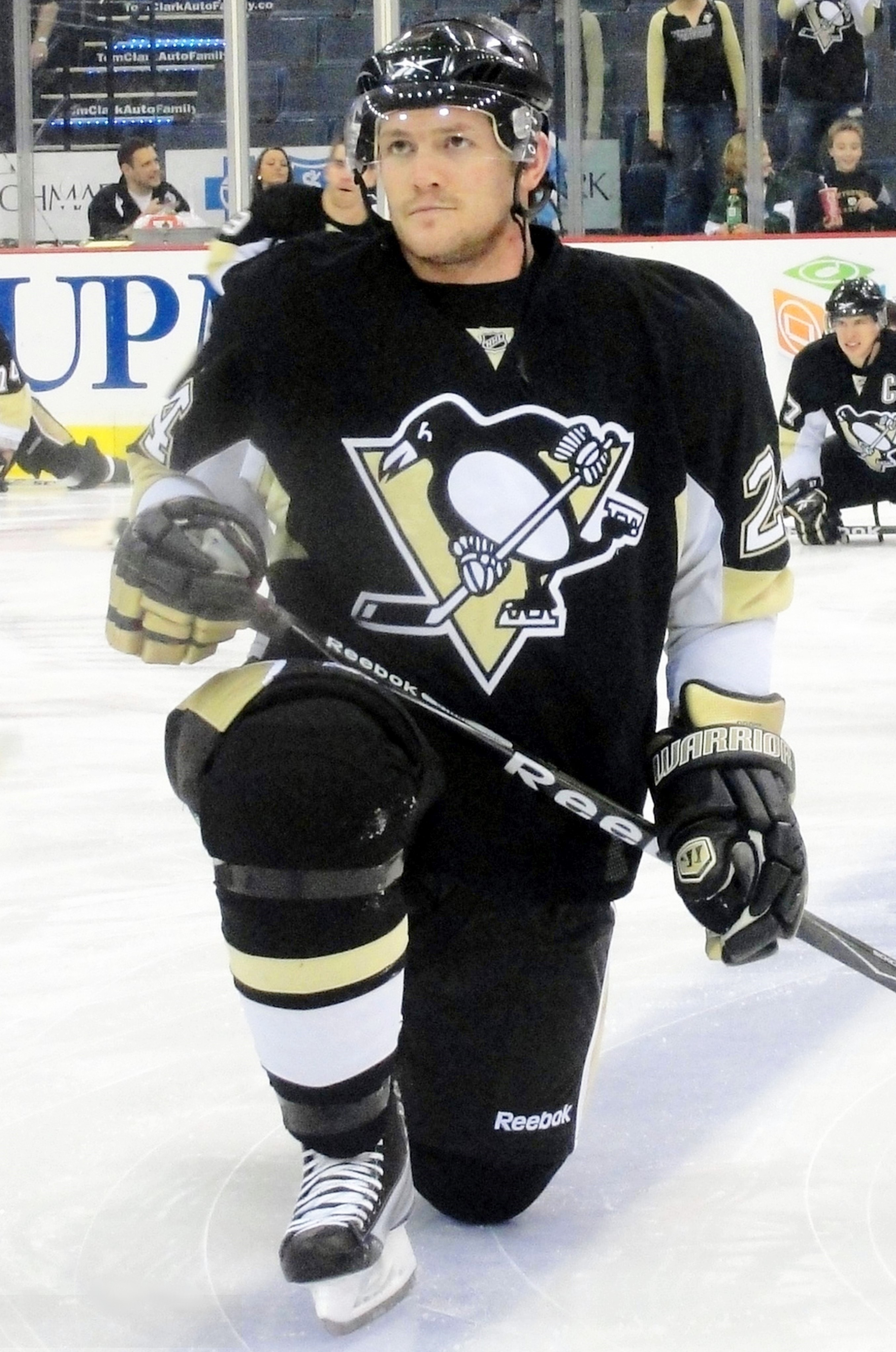 Matt Cooke warms up prior to a game between the Pittsburgh Penguins and Atlanta Thrashers at Mellon Arena in Pittsburgh, PA, April 3, 2010. From PensAreYourDaddy.